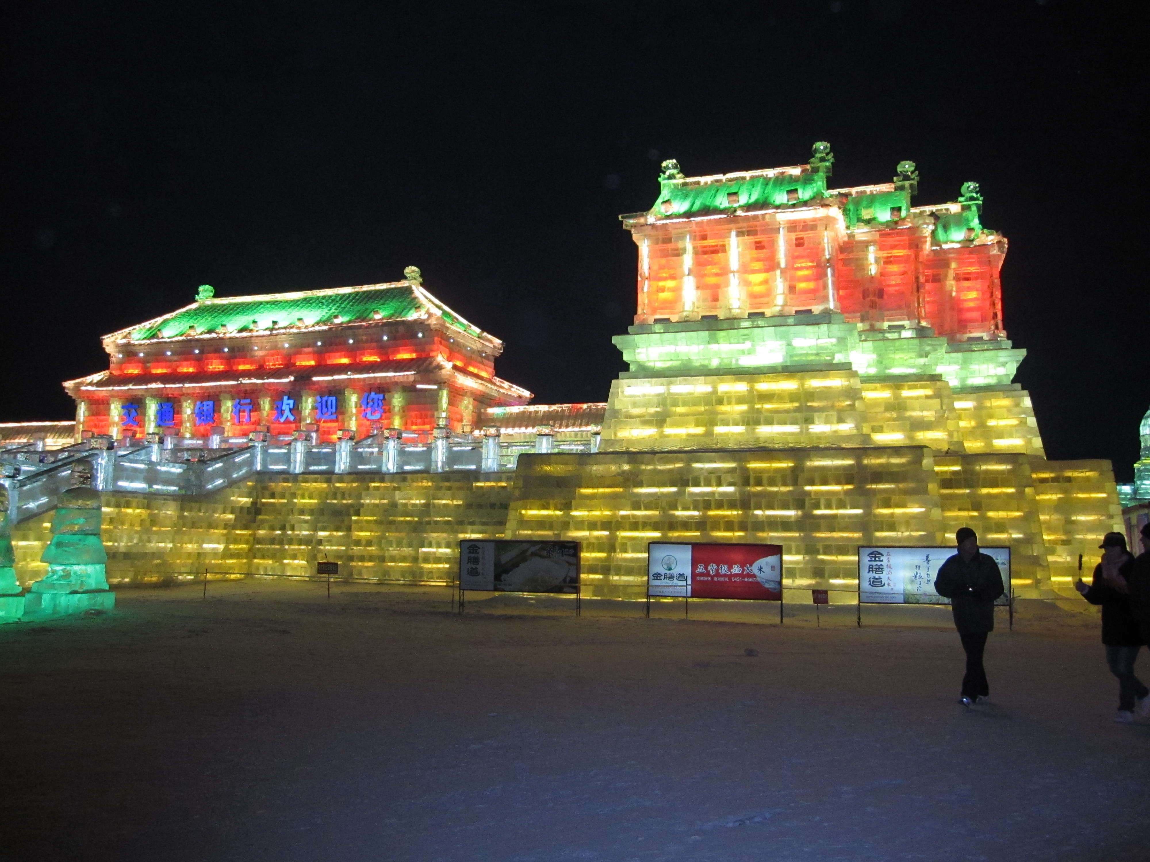 The Eleventh Harbin Ice Snow World、